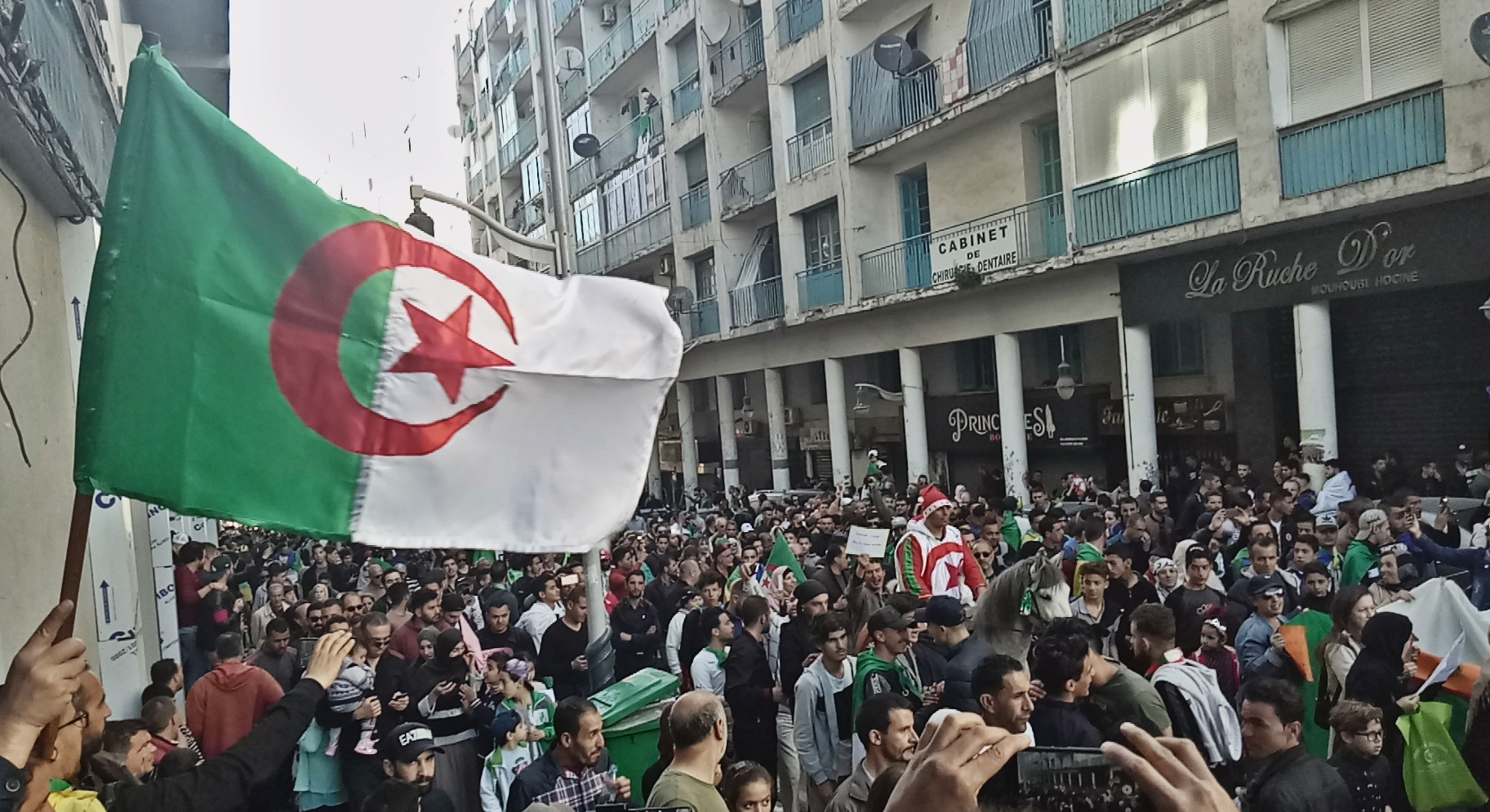 Pictures taken in different places in the Kabyle town of Bejaia